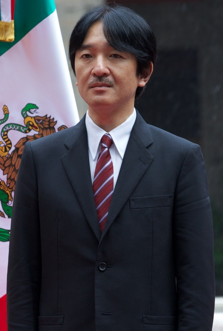 Prince and Princess Akishino during their visit to México City in 2014.